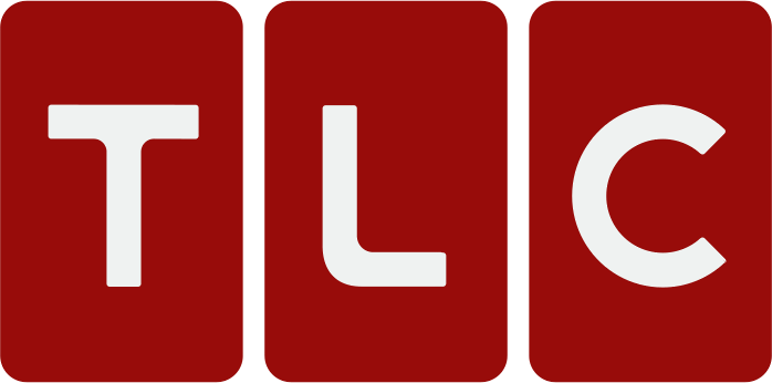 Logo for TLC in America.